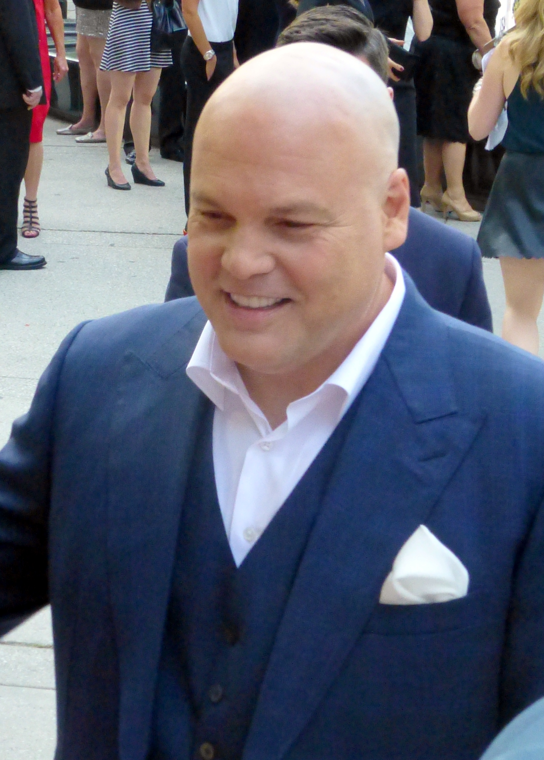 Vincent D'Onofrio at the premiere of The Judge, Toronto Film Festival 2014